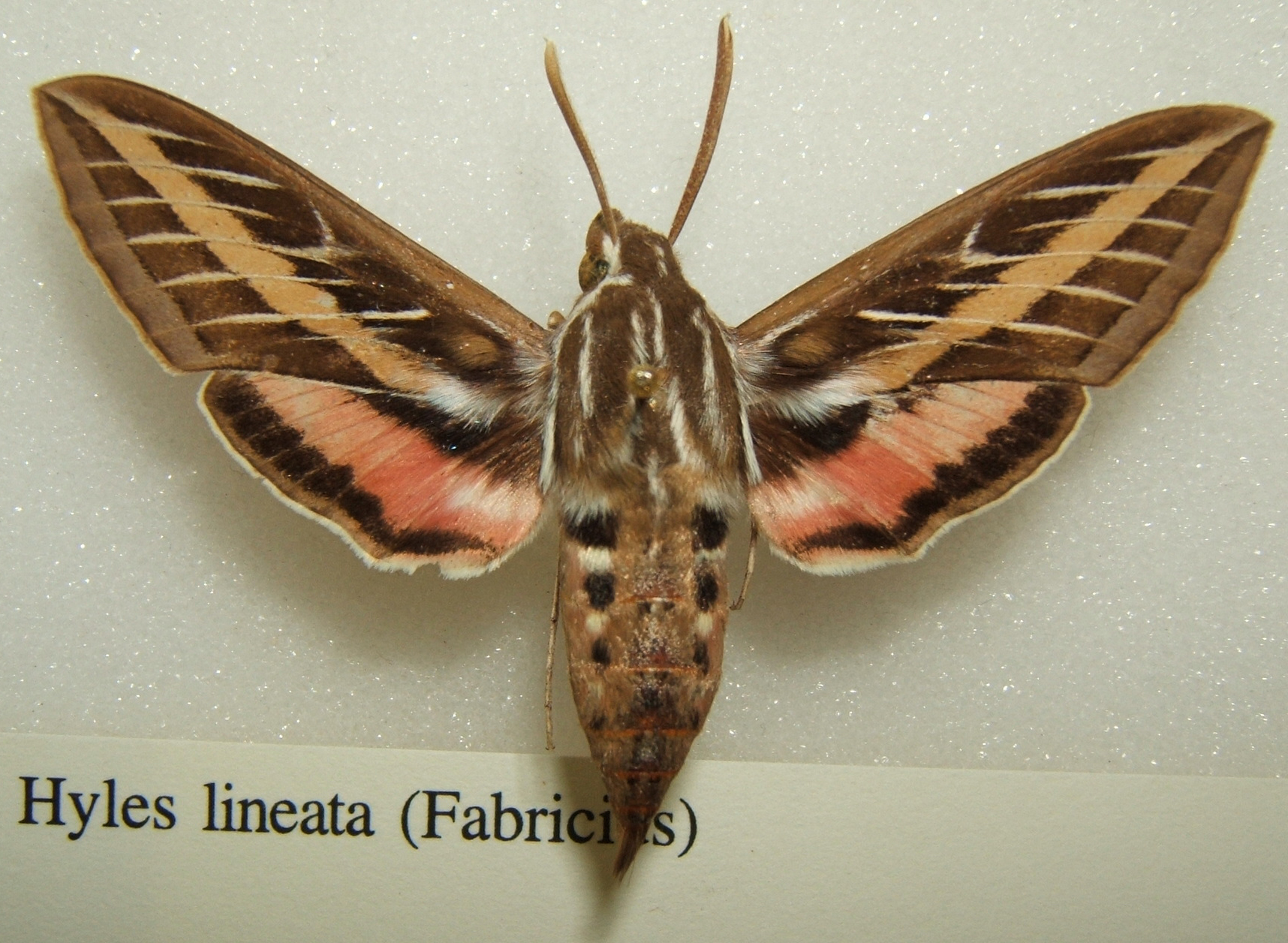 Hyles lineata adult taken by Shawn Hanrahan at the Texas A&M University Insect Collection in College Station, Texas.